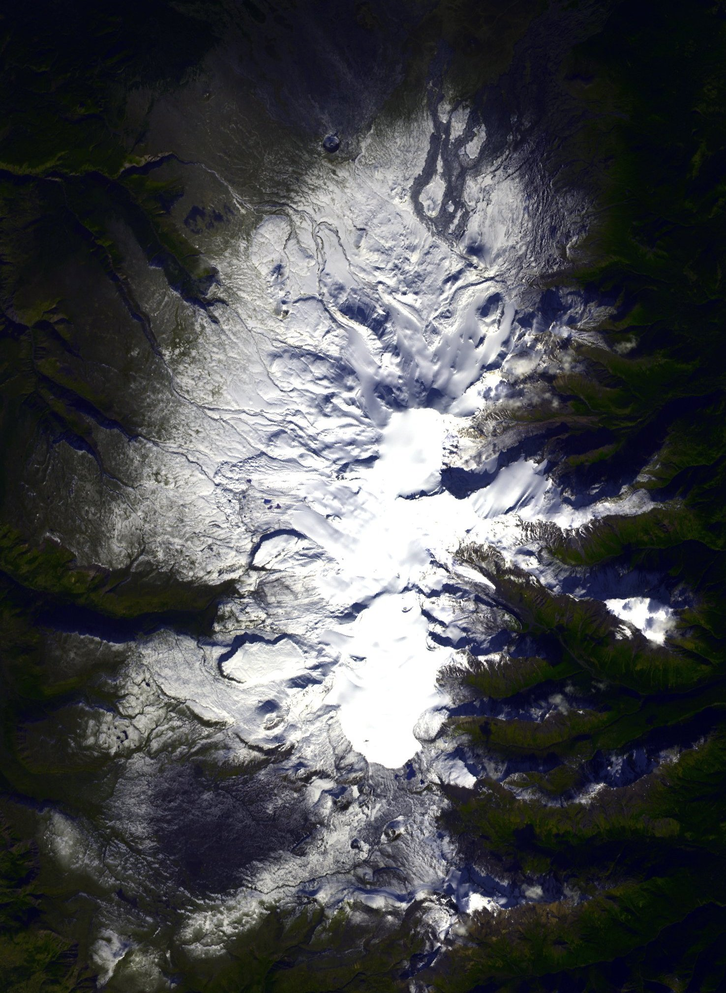 Satellite photo of Mount Edziza.